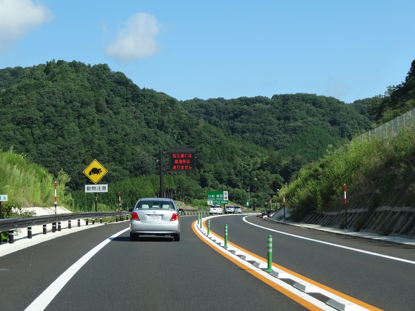 The Matsue Expressway in Kuchiwa-cho Area, Shobara City, Hiroshima Prefecture, Japan.